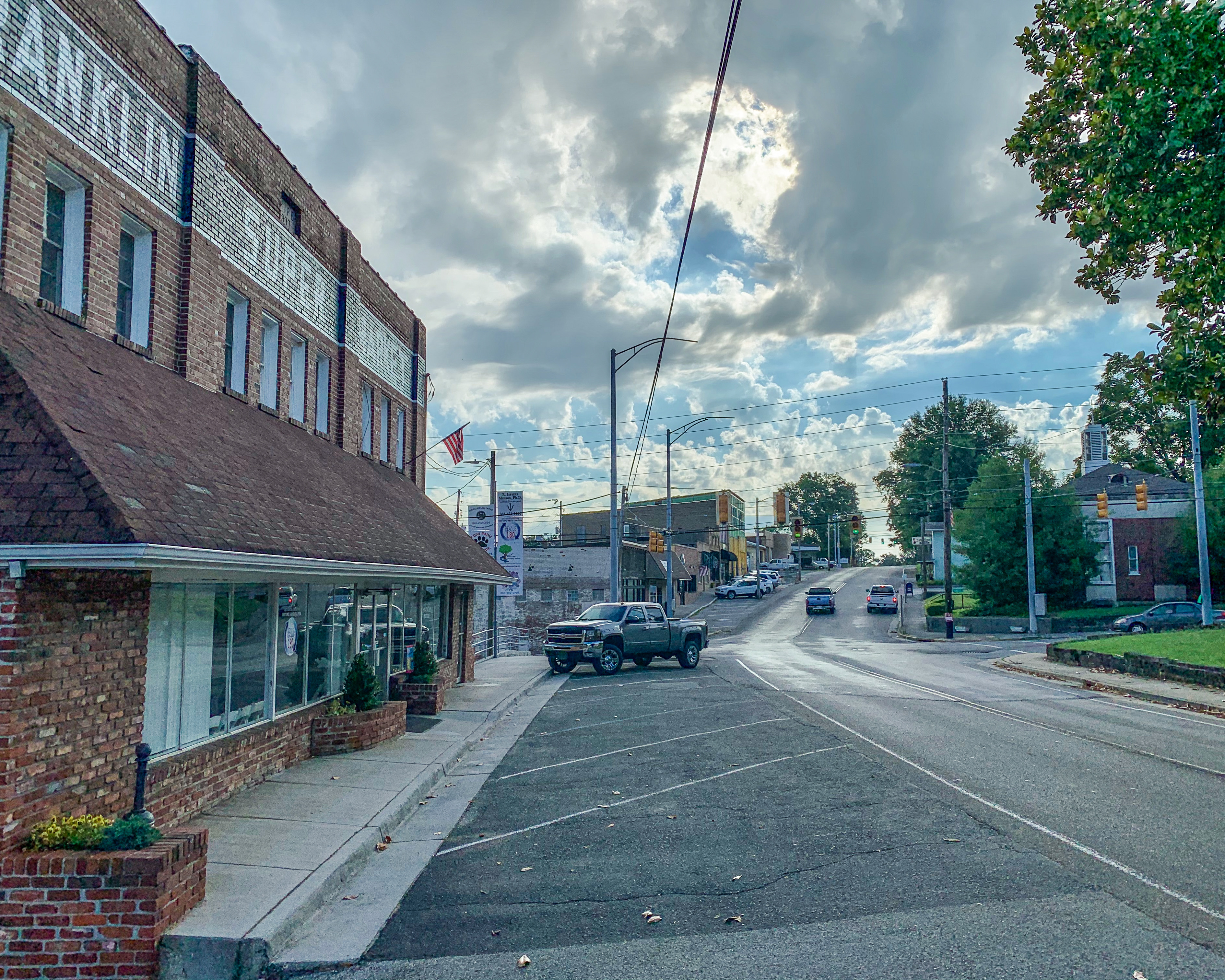 Downtown Jefferson City, Tennessee, United States